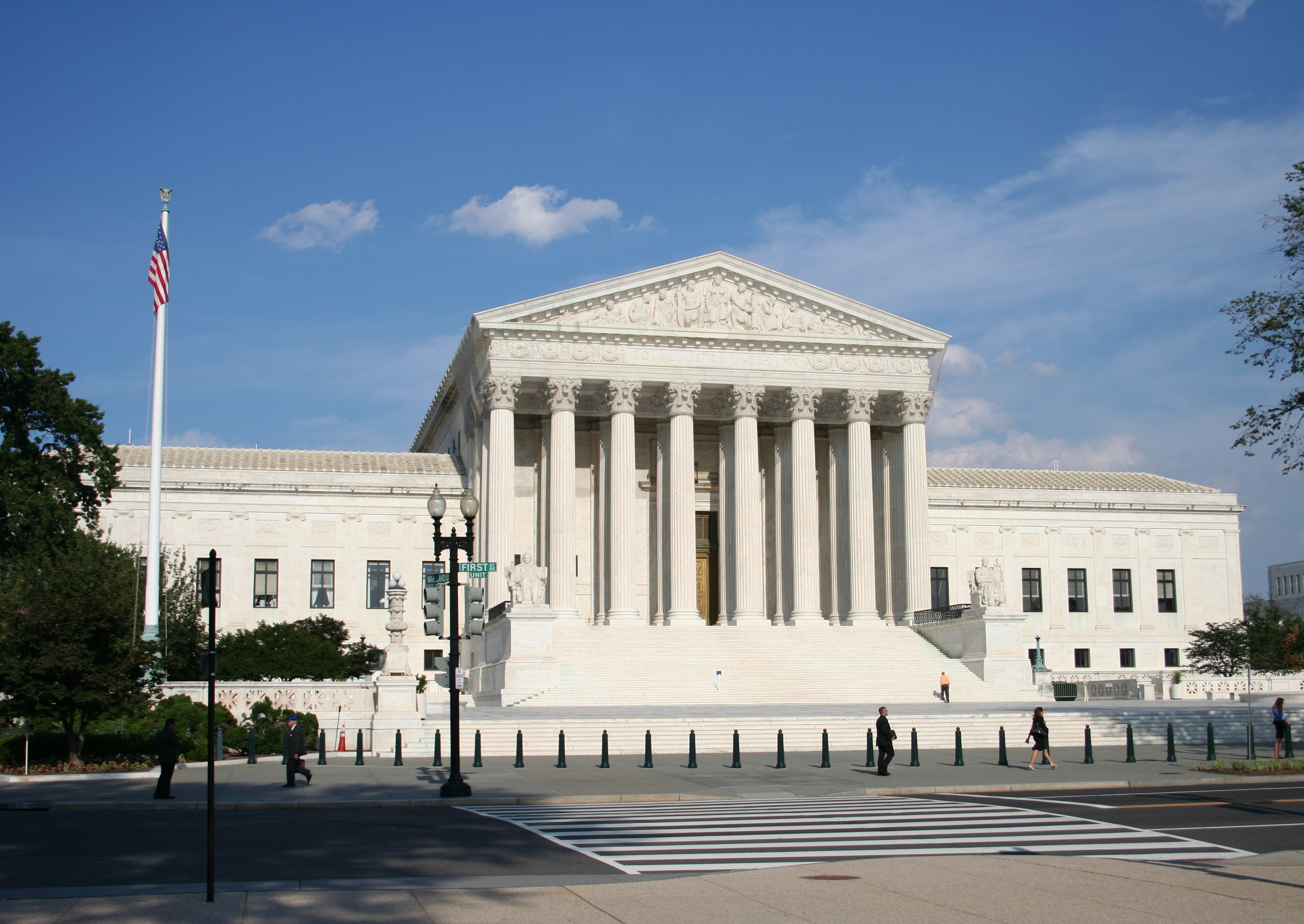 Supreme Court of the United States Building, Washington, DC, as seen from the west side of 1st St NE.